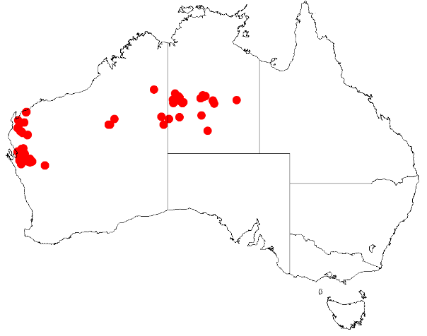 Acacia wiseana Occurrence data from Australasia Virtual Herbarium downloaded from on 8 December 2018